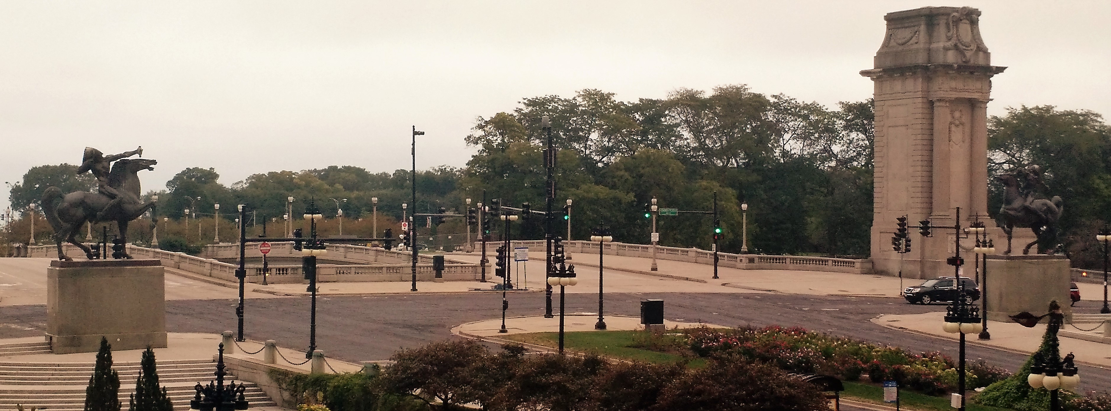 Also known as The Indians, The Bowman and The Spearman are the guardians to the entrance of Grant Park at the intersection of Congress Parkway and Michigan Avenue in Downtown Chicago, IL, USA.